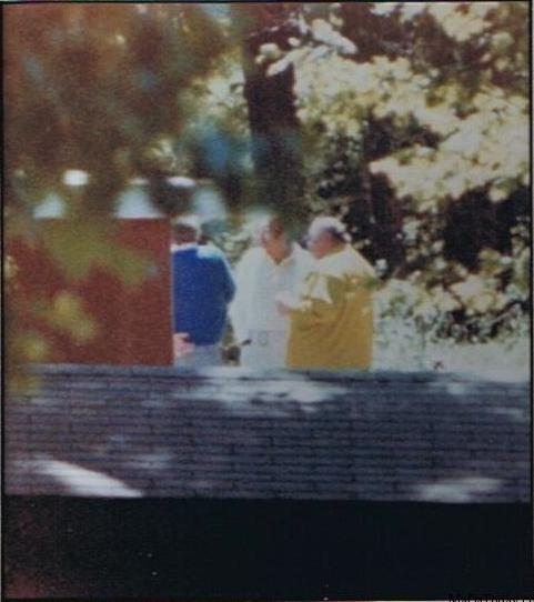 This FBI photo, taken on June 11, 1979, at a game farm in Dexter shows convicted mob boss Jack Tocco (center) along with Vito Giacalone (left) and Anthony Corrado.